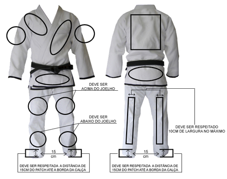 rules bjj